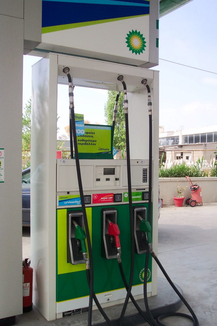 A photo of a modern Dresser Wayne pump at a BP service station, taken by me in Greece.